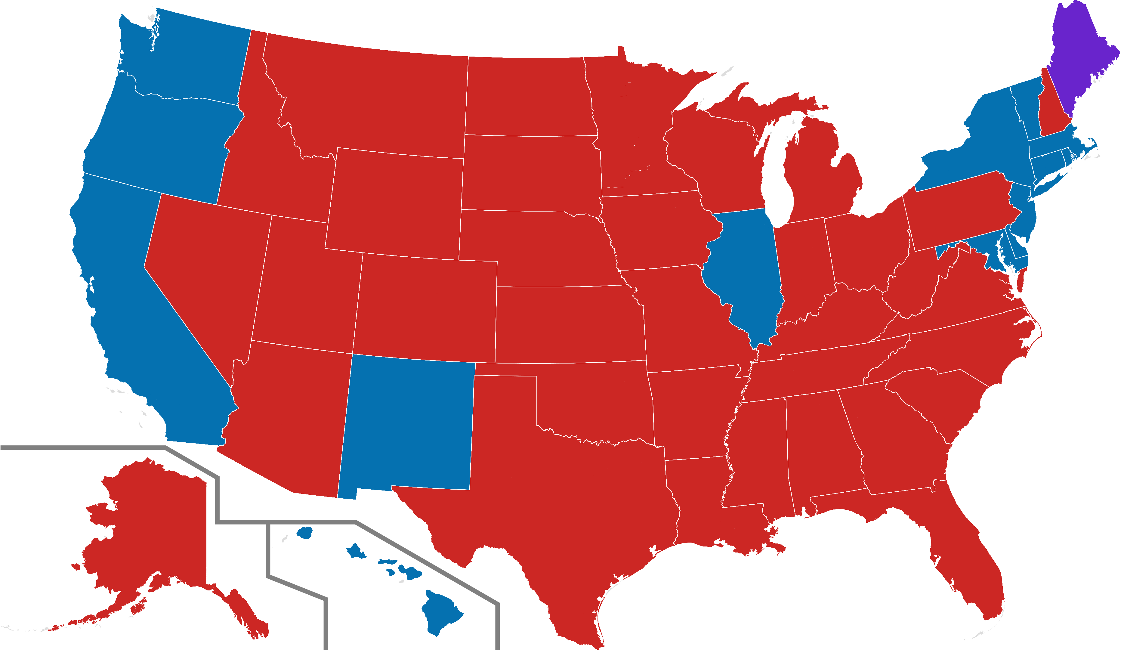 Map showing the male vs. female voting differences in the 2016 United States presidential election. Data SVG source: File:2016 presidential election, results by congressional district.svg, sourced on File:113th U.S. Congress House districts blank.svg.